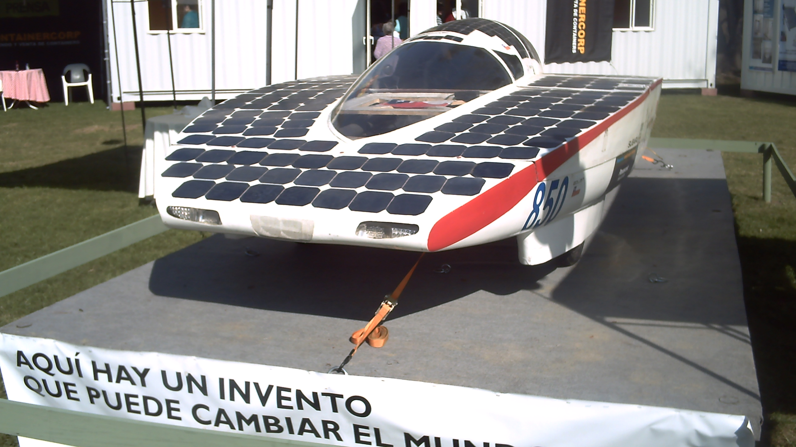 Solar car Eolian from the University of Chile